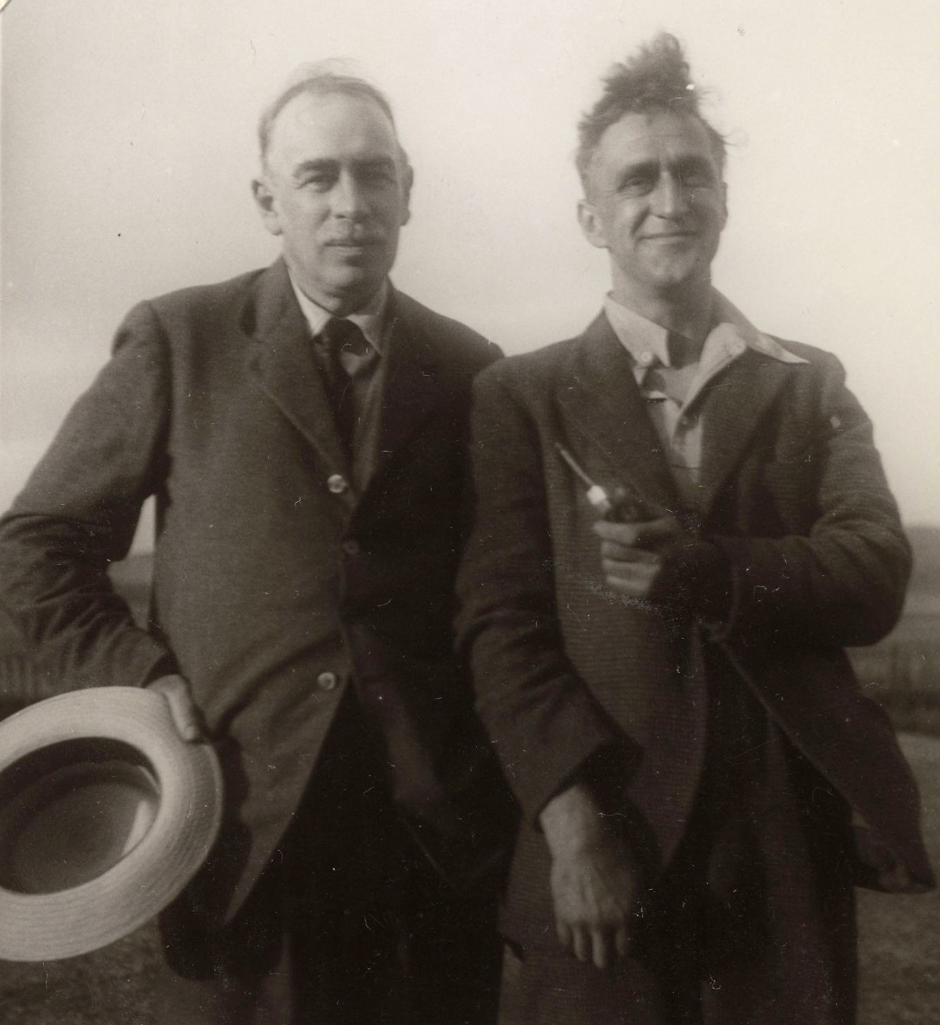 John Maynard Keynes with Kingsley Martin. Photograph from Monk's House.